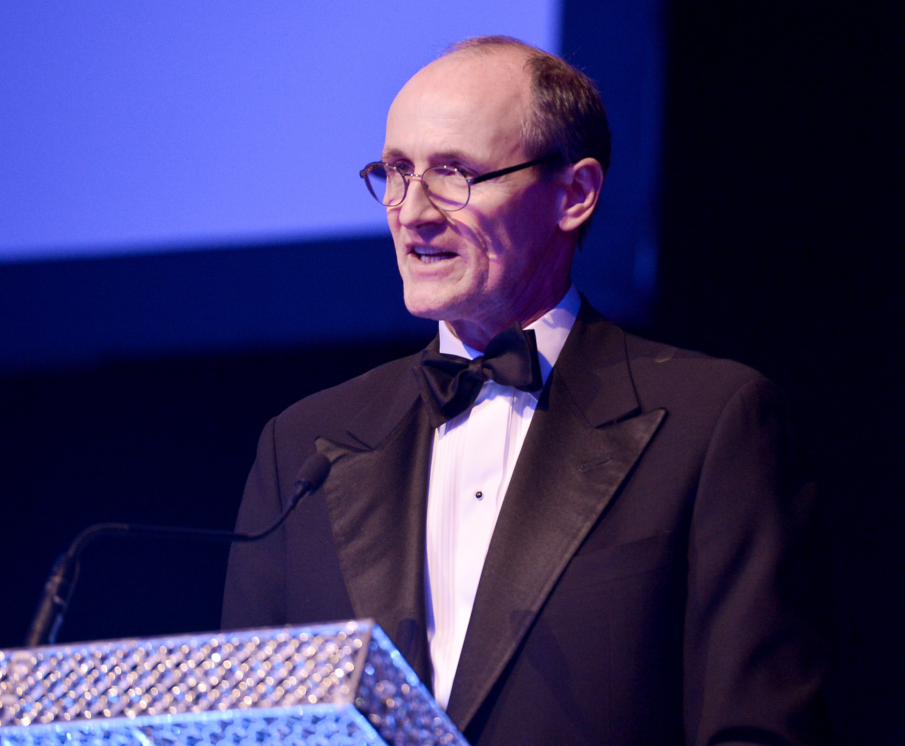 Master of Ceremonies Colm Feore at the 2013 CFC Annual Gala & Auction. On February 6, 2013, the CFC celebrated media innovation and CFC talent at CELEBRATING A QUARTER CENTURY OF CREATIVITY, its 19th Annual Gala & Auction. The Annual Gala & Auction is one of the CFC’s most significant fundraising initiatives. Funds raised at this event directly support the CFC’s training programs for film, television, digital media, screen acting and music. For more about the Canadian Film Centre, visit: Photo by George Pimentel Photography.